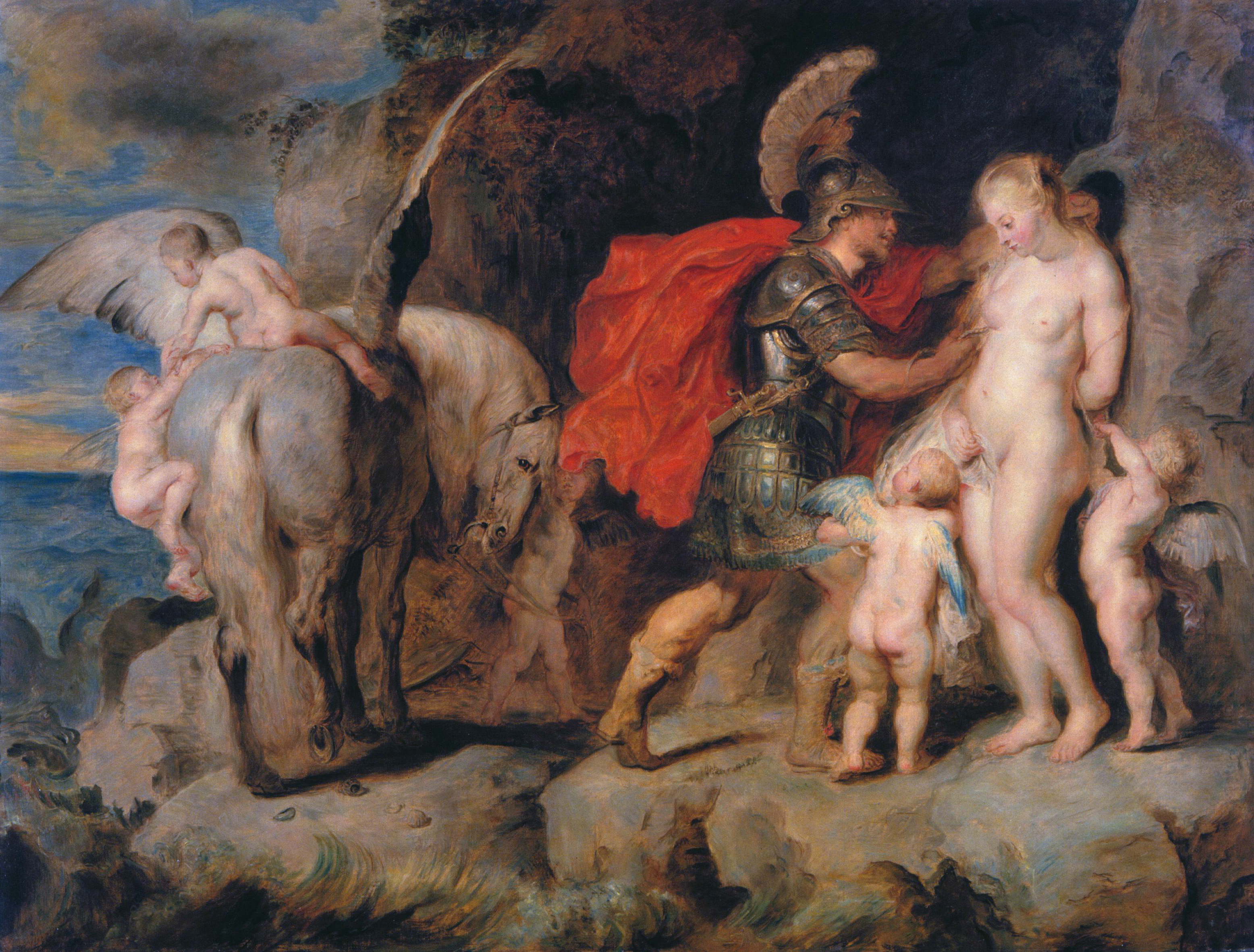 Perseus frees Andromeda of her chains, after Peter Paul Rubens oil on canvas 90 x 120.5 cm